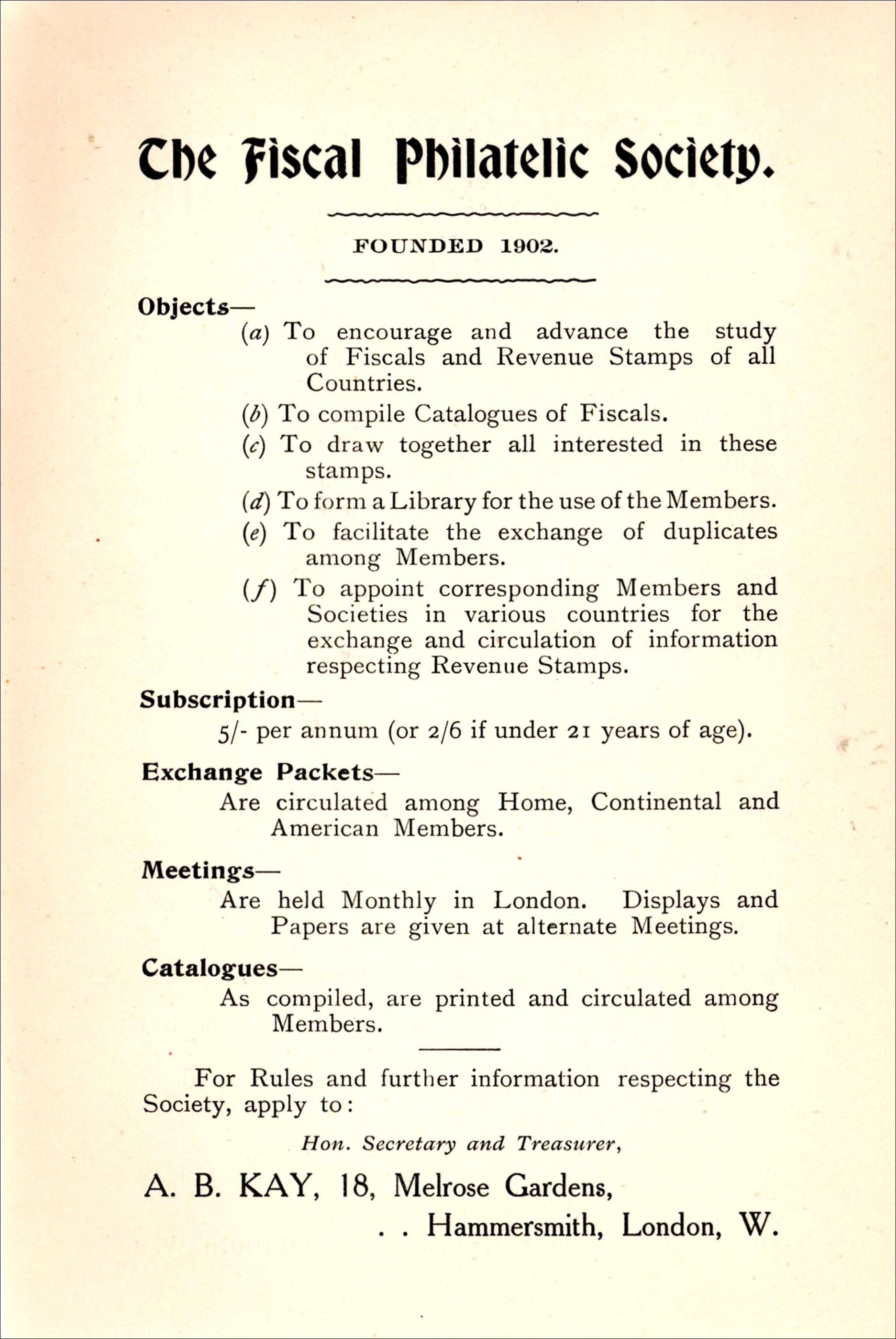 Advert for the Fiscal Philatelic Society from the "Priced Catalogue of British Colonial Adhesive Revenue, Telegraph and Railway Stamps 1908" by A.B. Kay, Bridger & Kay, London, 1908.